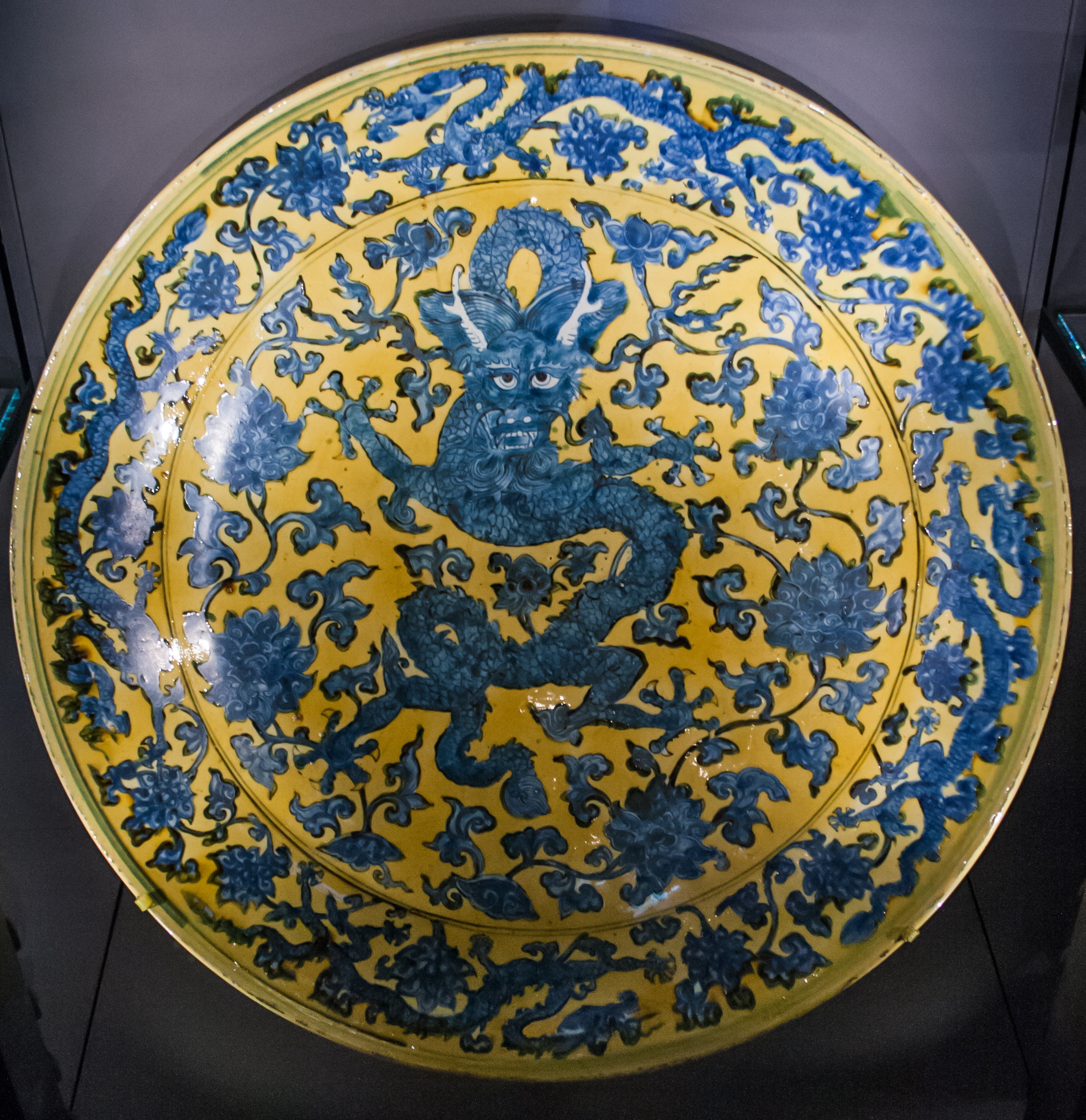 Jingdezhen ware dish with underglaze blue dragon on yellow enamel. Ming dynasty, 1522-1566.